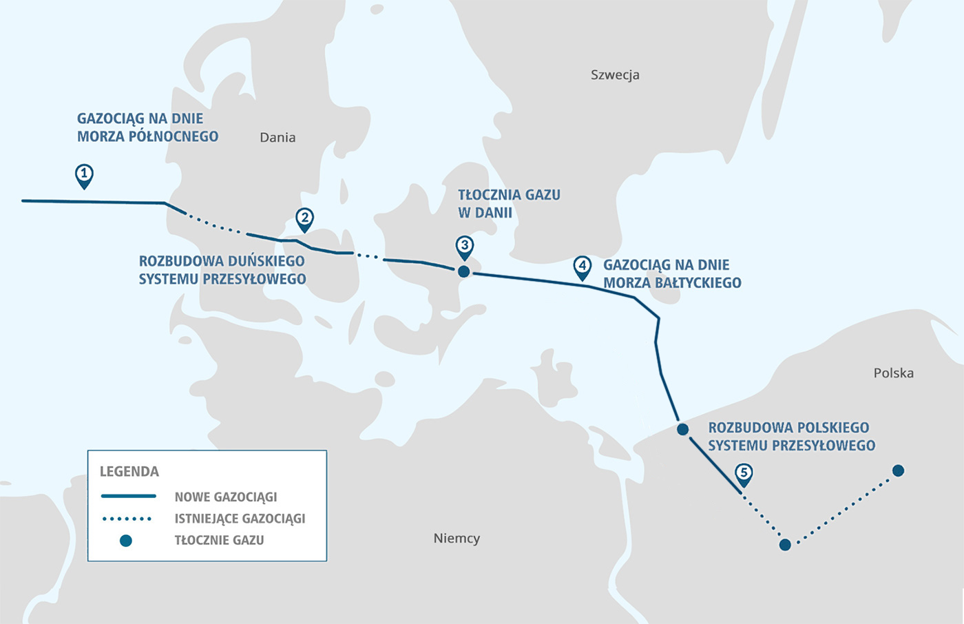 Baltic Pipe Pipeline draft map